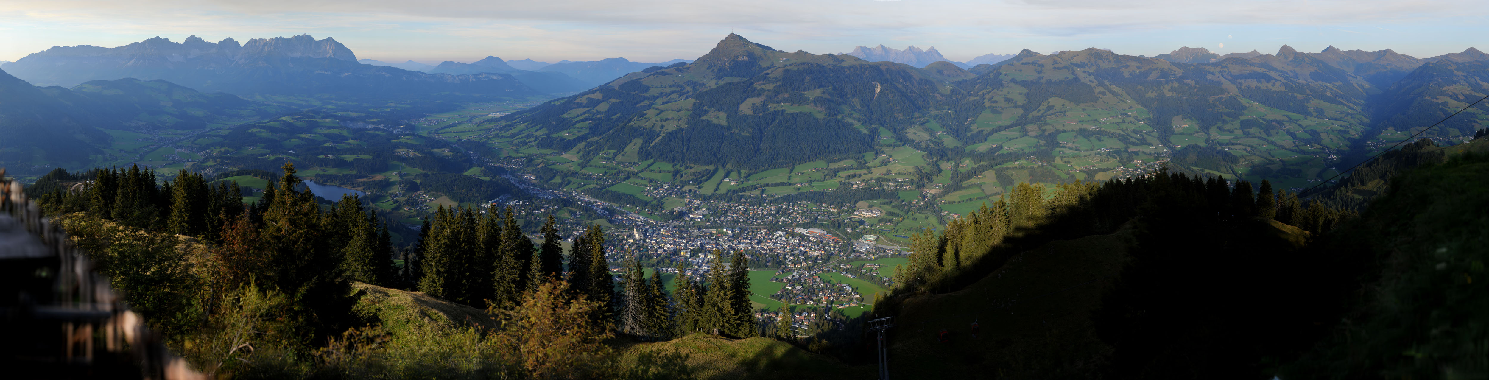 View onto Kitzbühel from Hahnenkamm. Full Resolution image (280.087x71.466) is available at